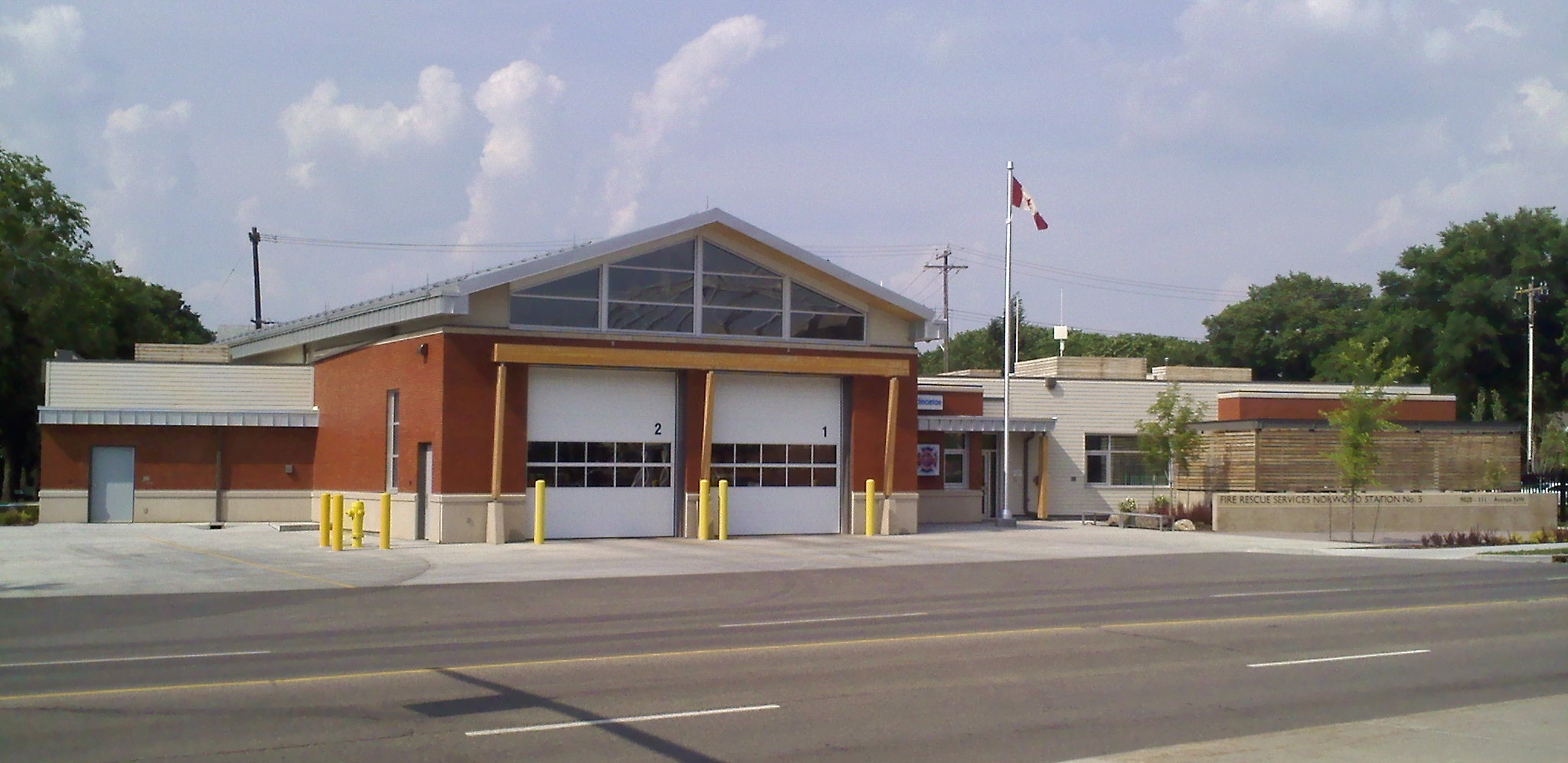 South face of Edmonton Fire Station Number Five at 9020 111 Avenue, Edmonton.